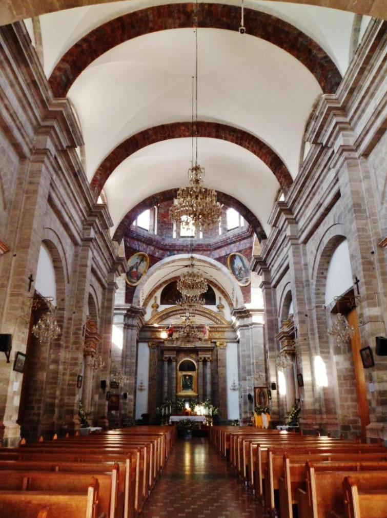 Cathedral Basilica of Saint Clement, Tenancingo, Mexico State, Mexico